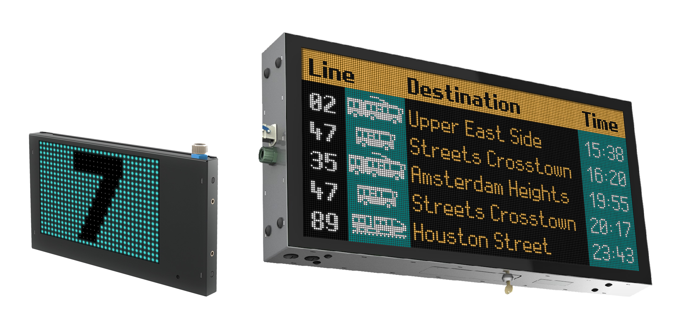 Led panel for public transport